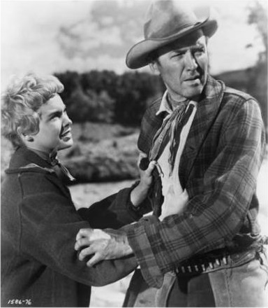 Janet Leigh & James Stewart in American western film The Naked Spur (1953). See also film still. No copyright notice.